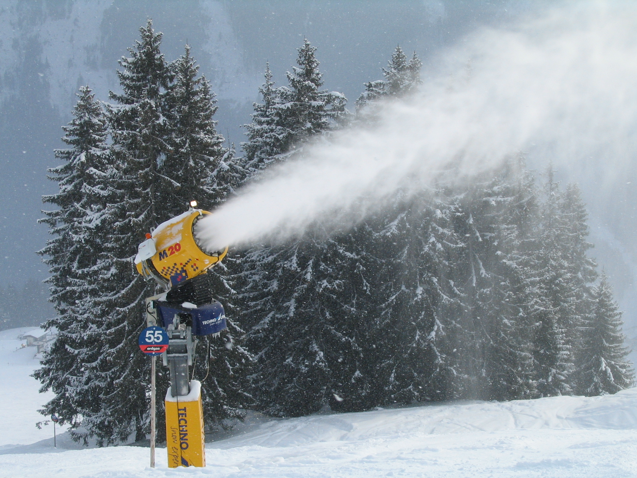 A snow cannon at work in Saalbach, Austria.